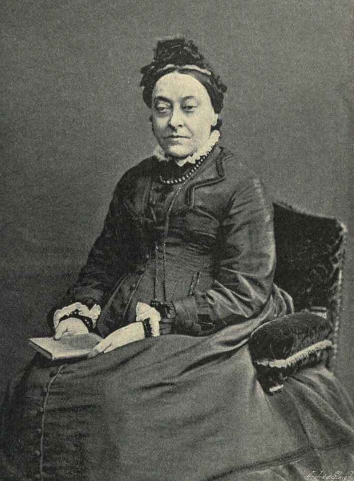 Portrait of Christina Rossetti